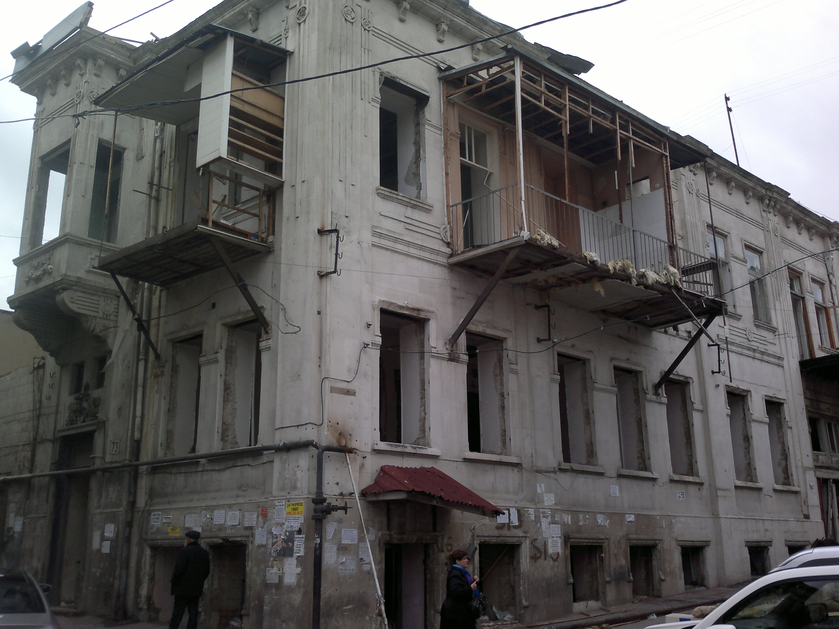 Building of 124 Mirza Agha Aliyev Street